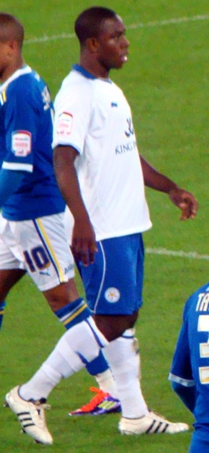 21/09/11 Cardiff V Leicester, Football League Cup, Cardiff City Stadium, Cardiff, Wales [Image cropped from original]